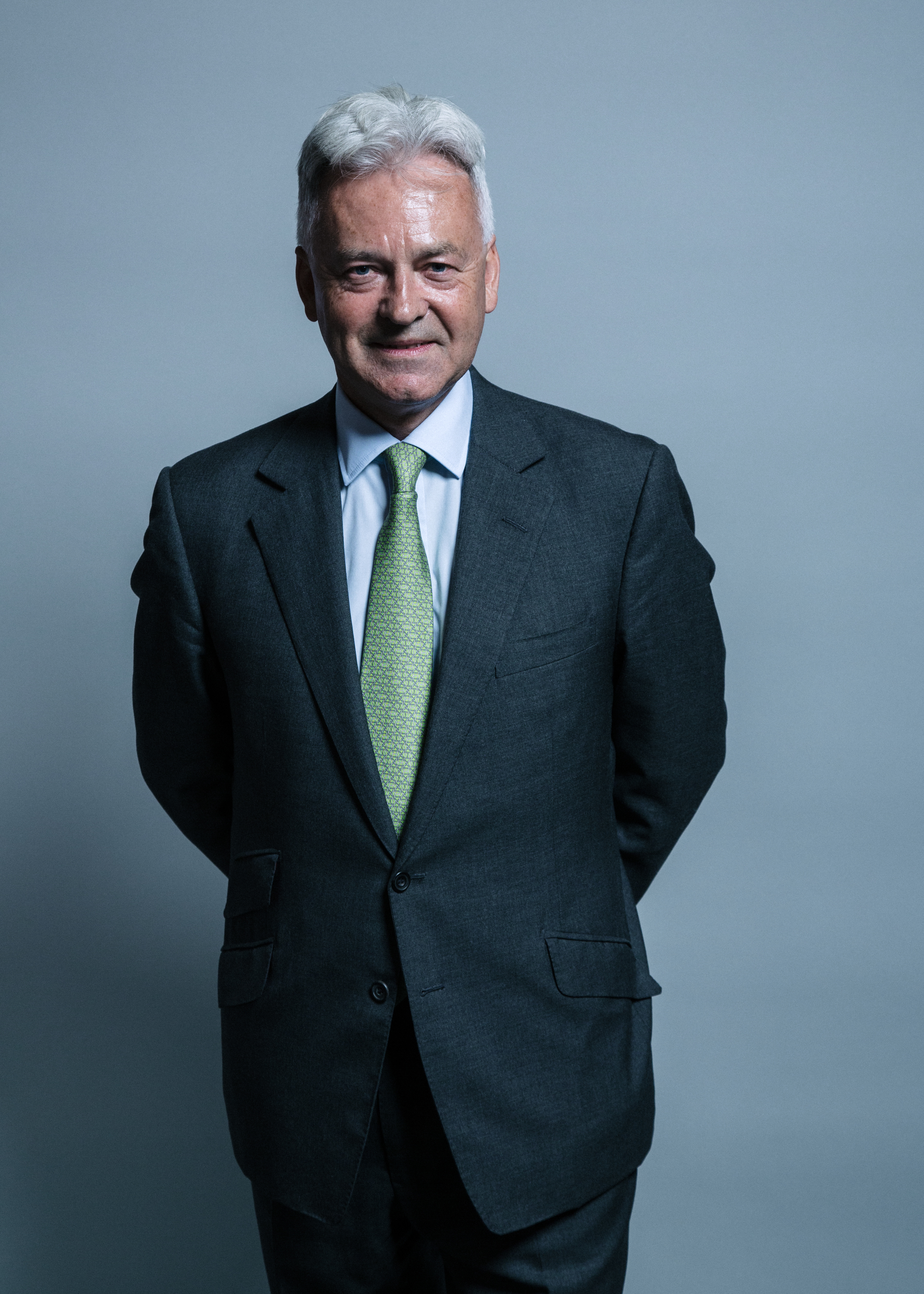 Official portrait of Sir Alan Duncan